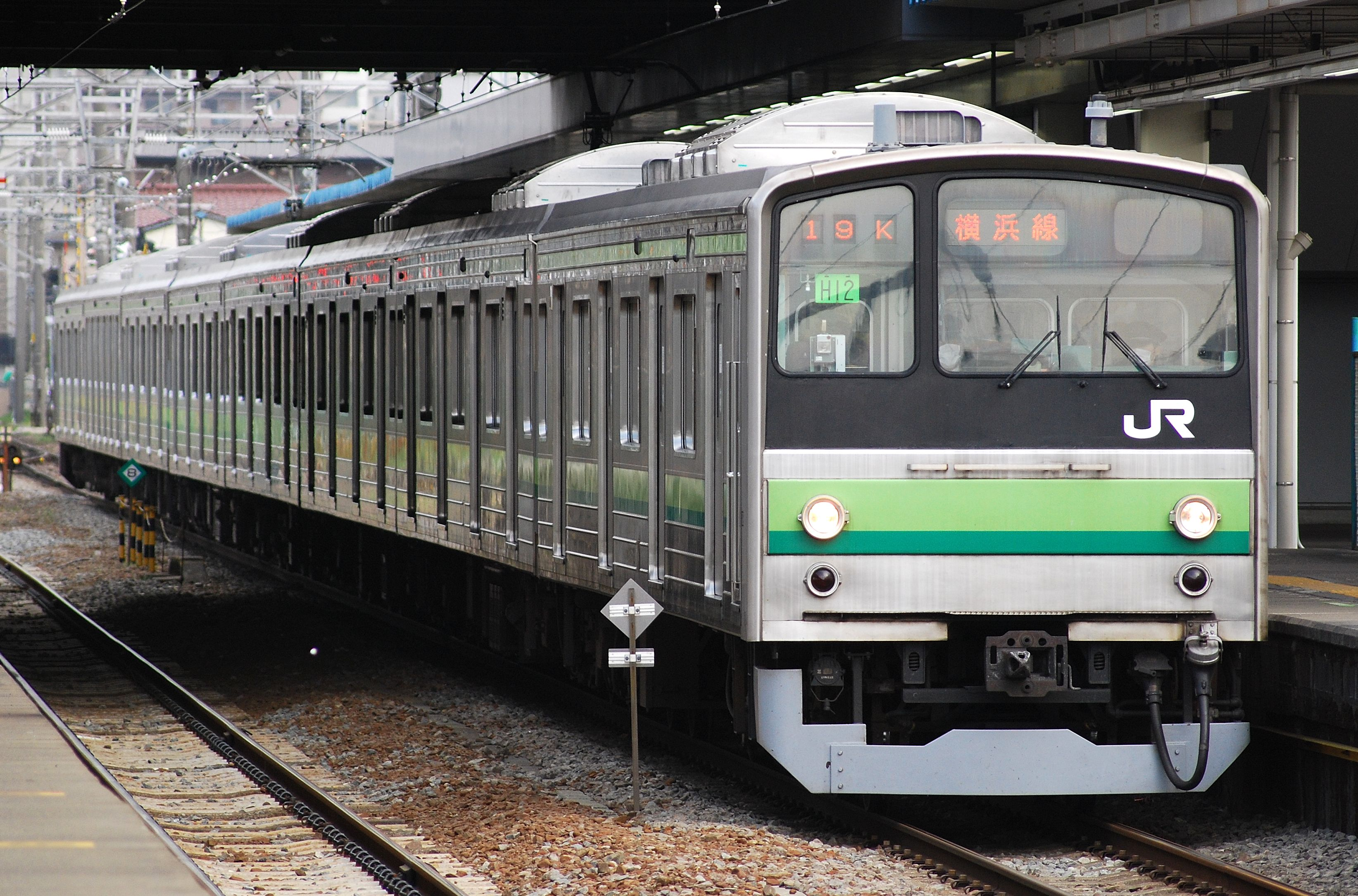 JR East 205 series EMU set H12 at Kozukue Station on the Yokohama Line